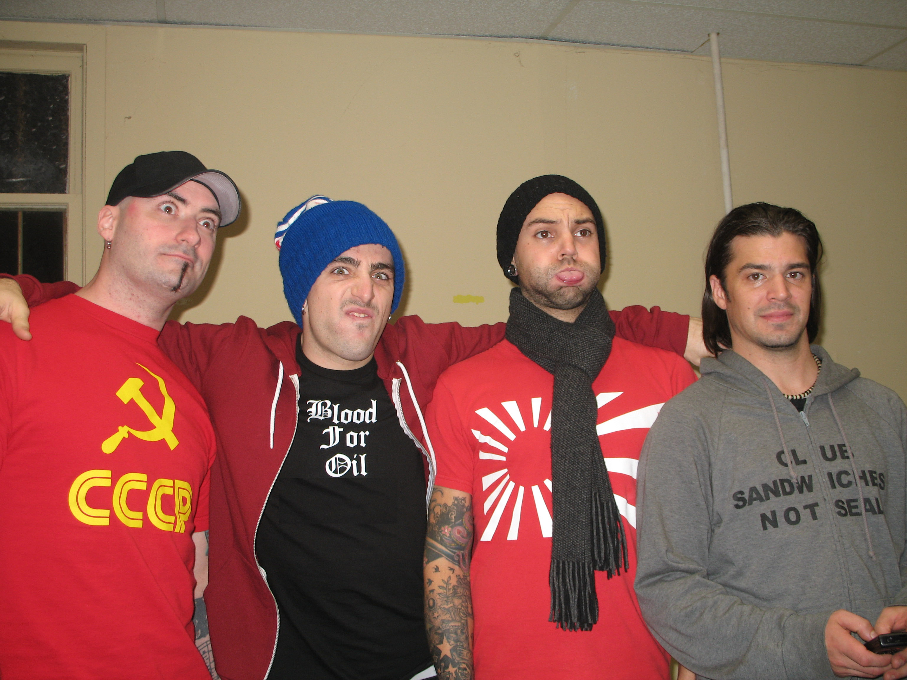 Canadian rock quartet Hedley.